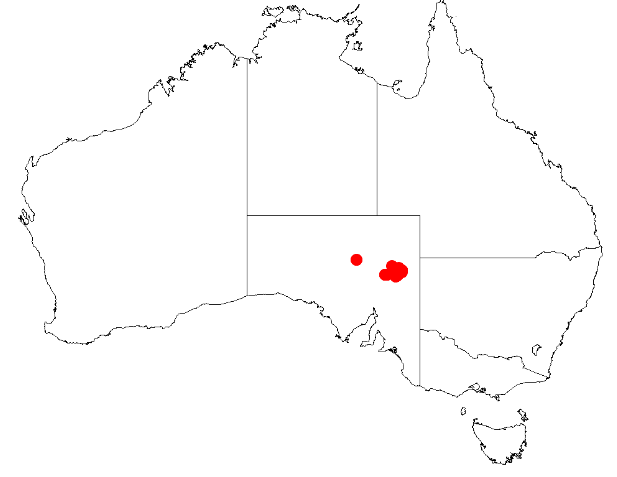 Acacia confluens Occurrence data from Australasia Virtual Herbarium downloaded from on 8 December 2018